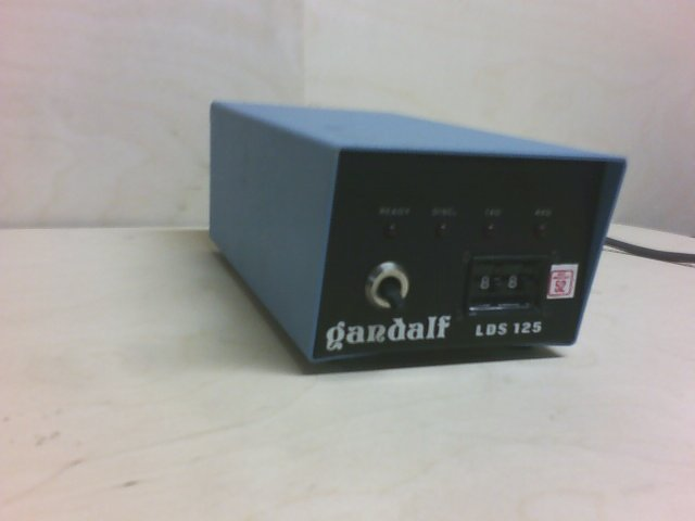 This is a photo that I have taken of an object that I purchased from WJ Ford Surplus in Smith Falls. It is the front view of a GANDALF LDS125 modem. I herby release this to all uses asking only for credit